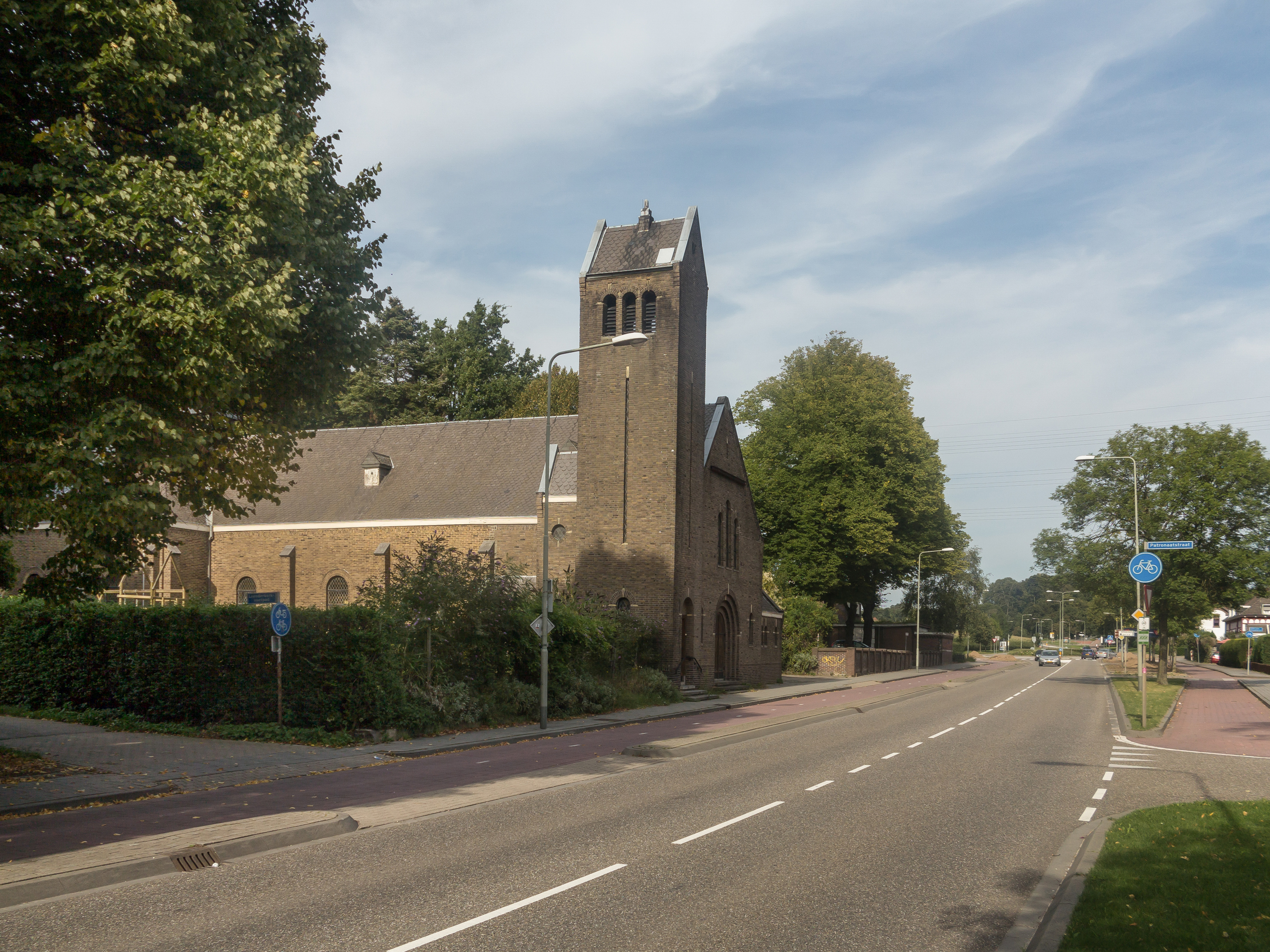 Schaesberg, church: de Onze-Lieve-Vrouw van de berg Carmelkerk